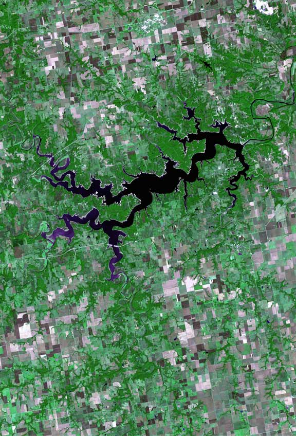 The raw satellite imagery shown in these images was obtain from NASA and/or the US Geological Survey. Post-processing and production by